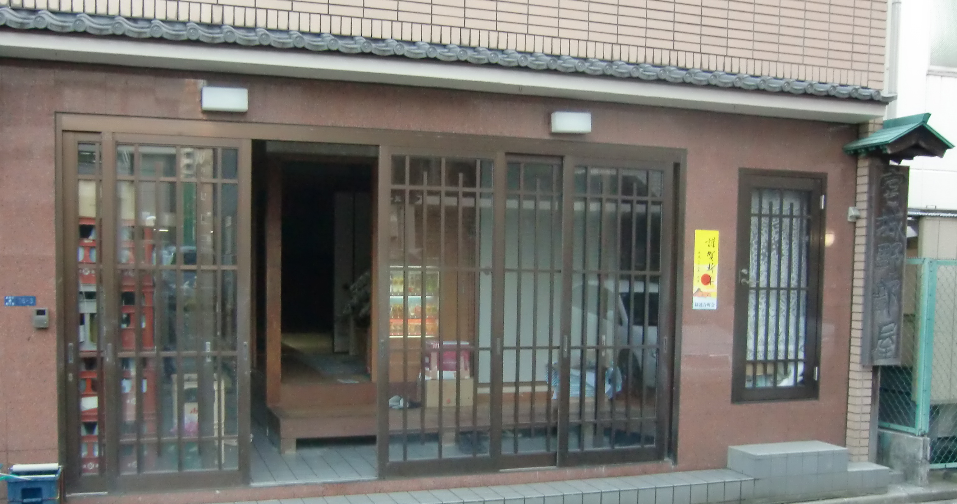 taken in front of the stable 2011